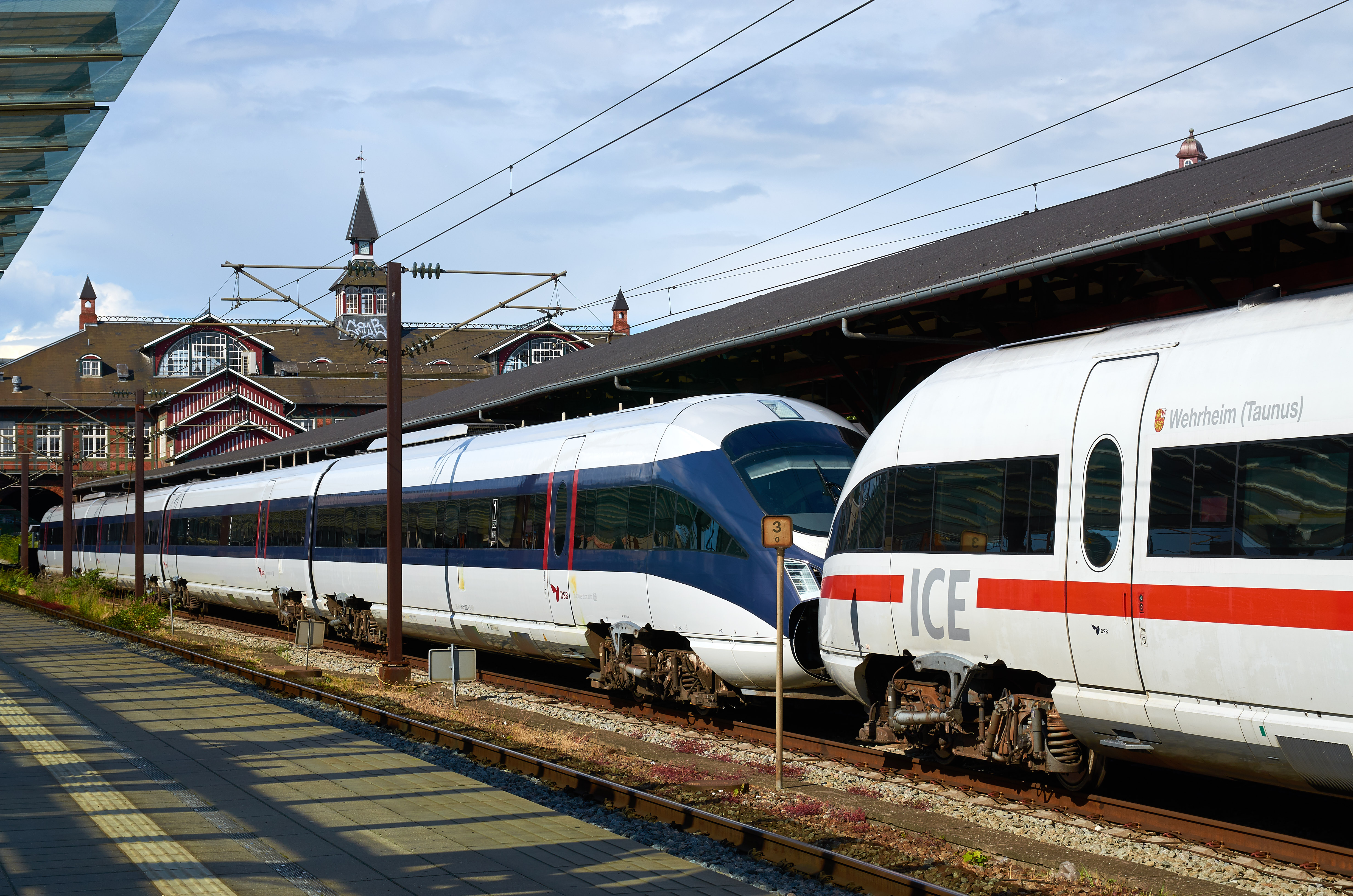 ICE TD in mixed DSB/DB colors at Københavns Østerport station.